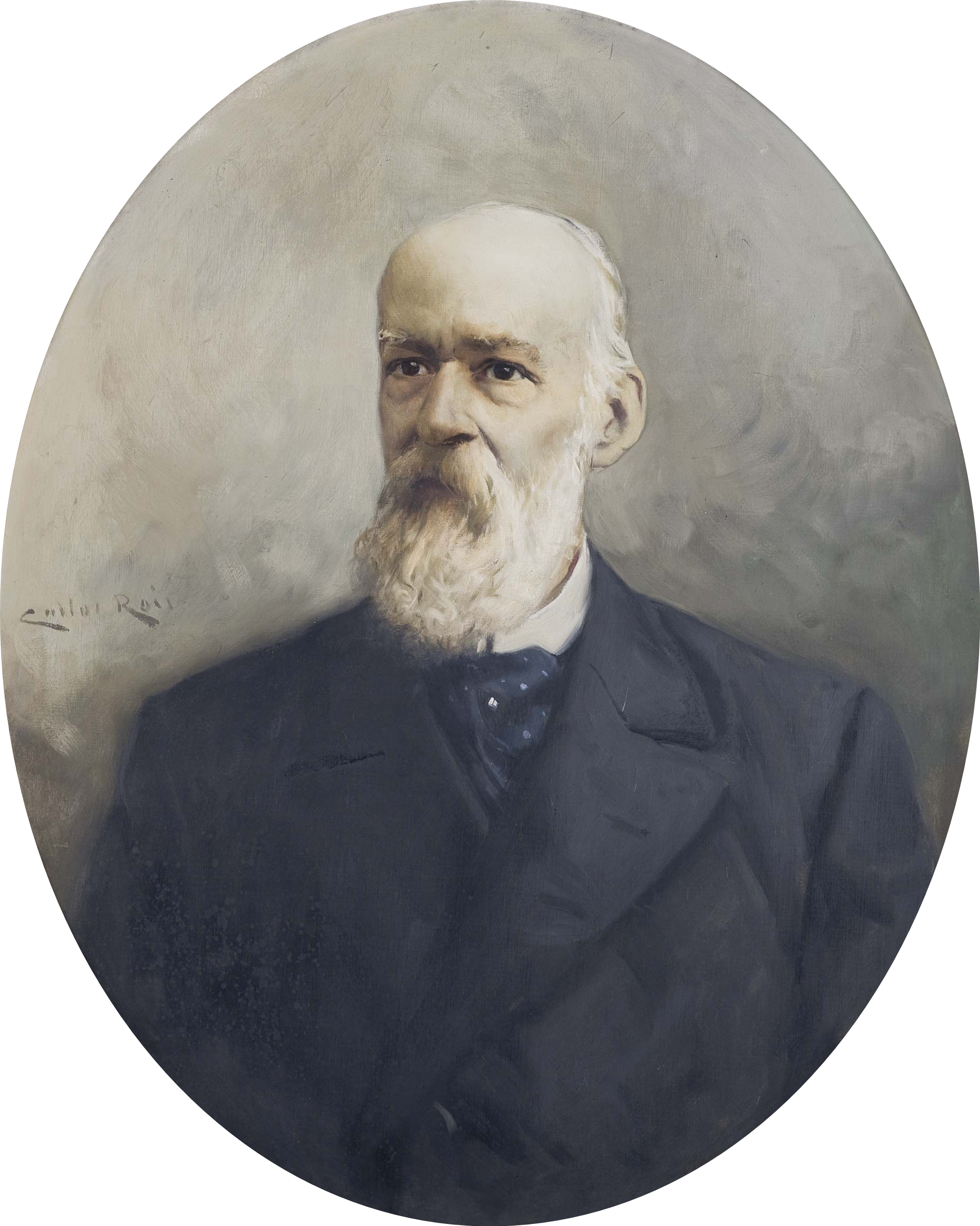 Portrait of Luís Bívar (1827-1904), portuguese judge, in the Palace of Saint Benedict.